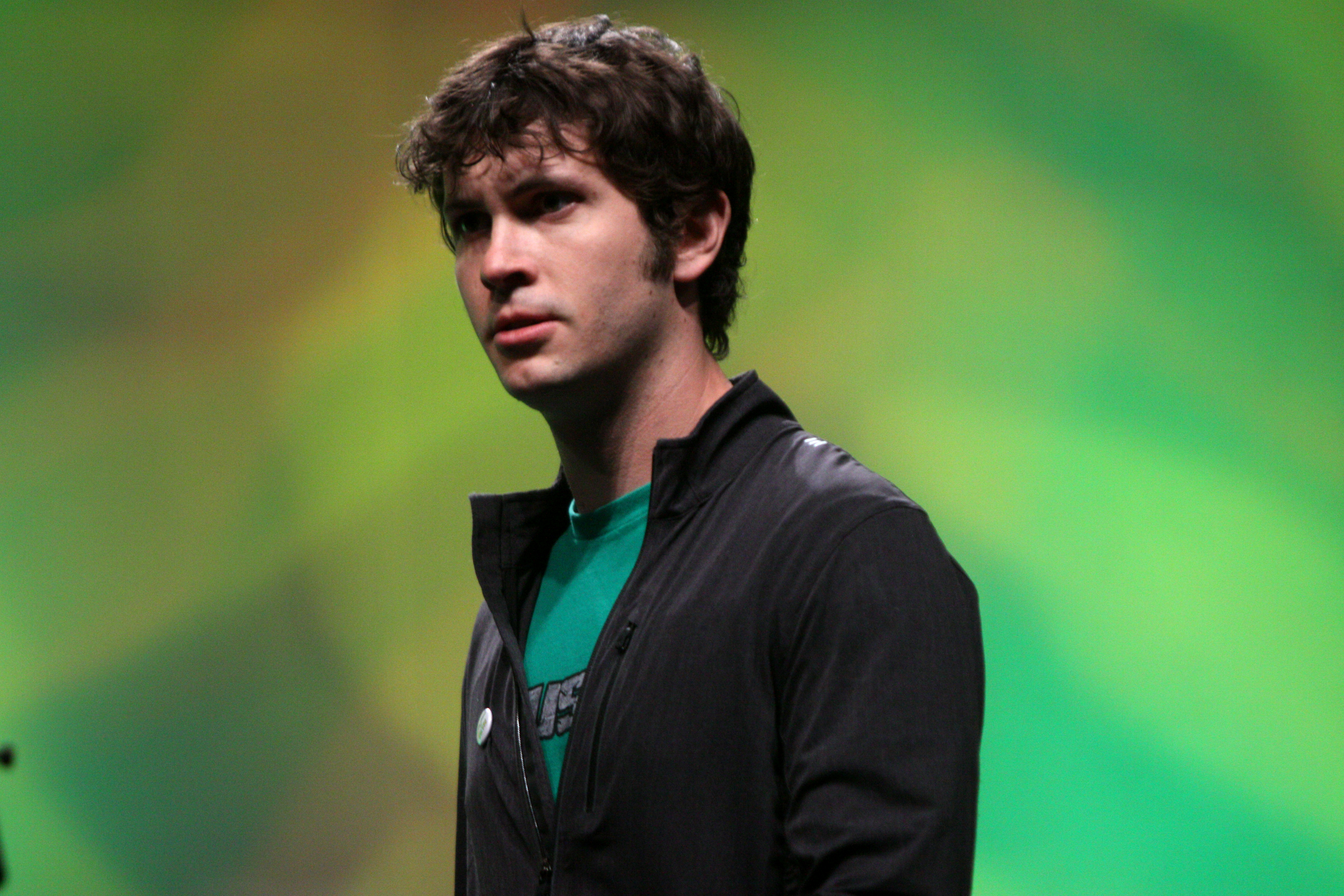 Toby Turner performing at VidCon 2012 at the Anaheim Convention Center in Anaheim, California.